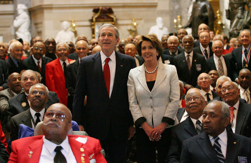 President George W. Bush and Speaker of the House Nancy Pelosi join 300 Tuskegee Airmen in Statuary Hall at the U.S. Capitol for a photograph Thursday, March 29, 2007. The group photo was part of the Congressional Gold Medal ceremony honoring America’s first African-American military airmen.